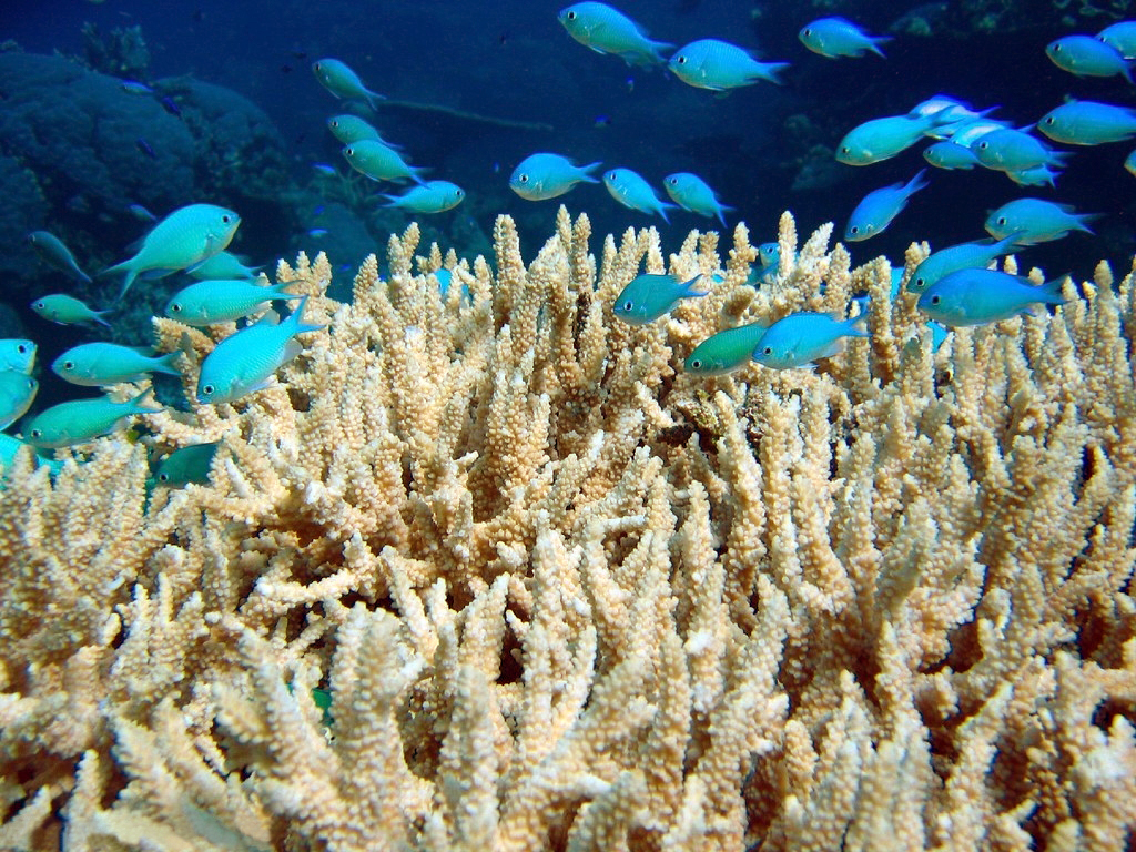 Green Pullers (Chromis viridis, see in fishbase) shelter among branching Acropora sp. coral. "No Name", Ribbon Reefs, Coral Sea